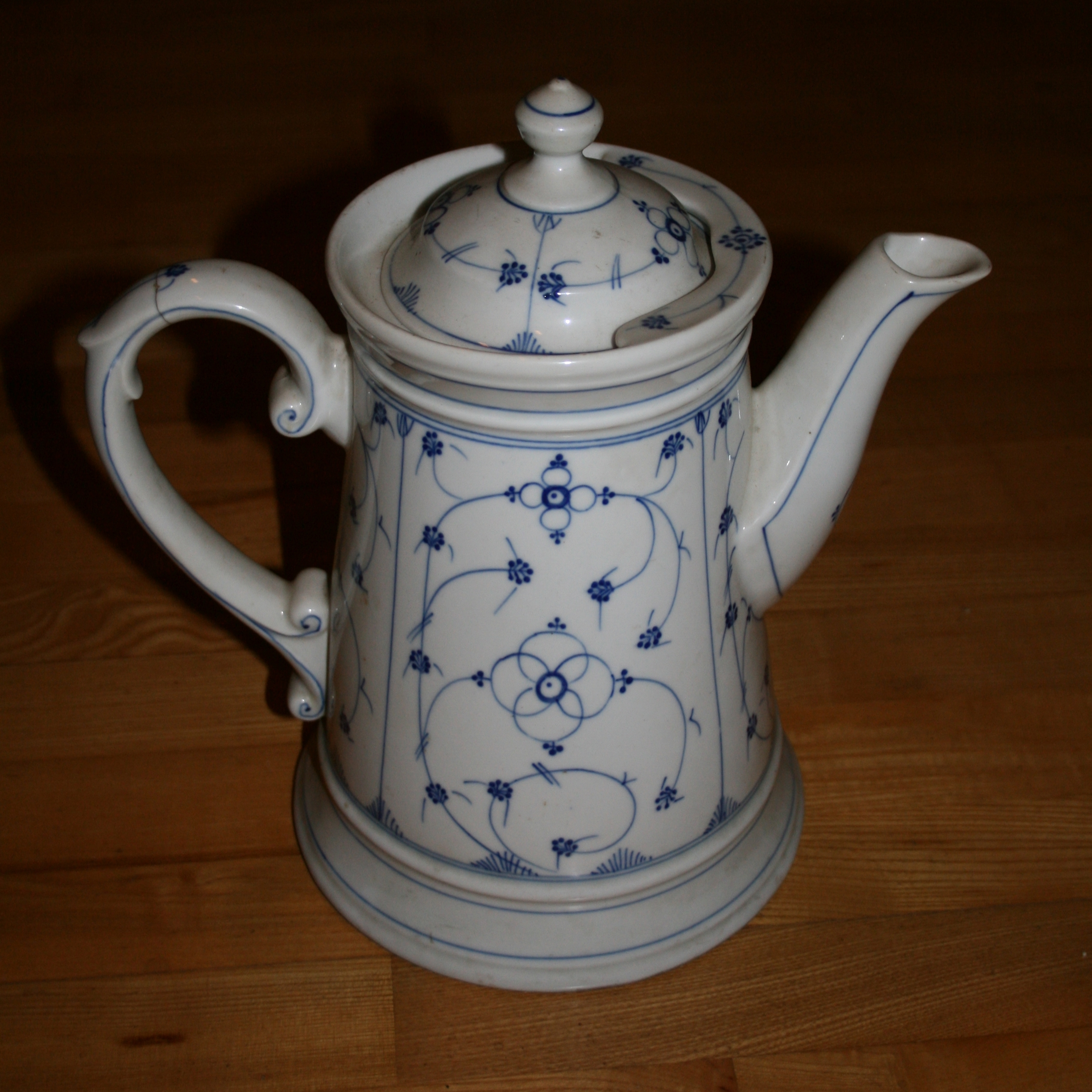 old coffeepot blue and white